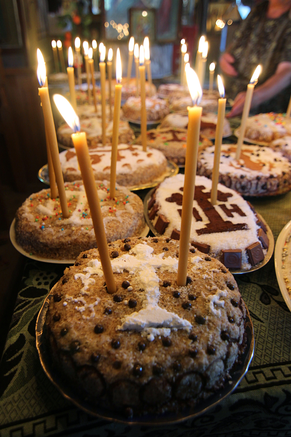 Romanian coliva used as part of a religious ceremony at a Christian Orthodox church